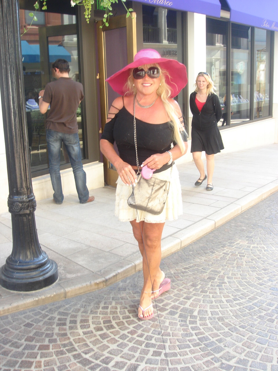 JoJo Savard in Beverly Hills, California.